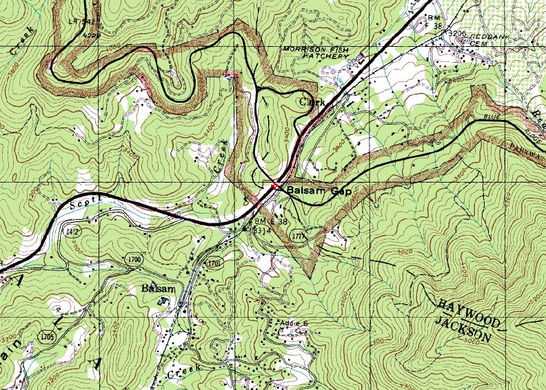 United States Geological Survey map of Balsam Gap, North Carolina.